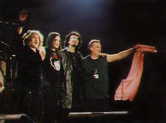 Black Sabbath on stage at Schleyerhalle in Stuttgart, Germany. "Reunion Tour". From left to right: Geezer Butler, Ozzy Osbourne, Tony Iommi, Bill Ward